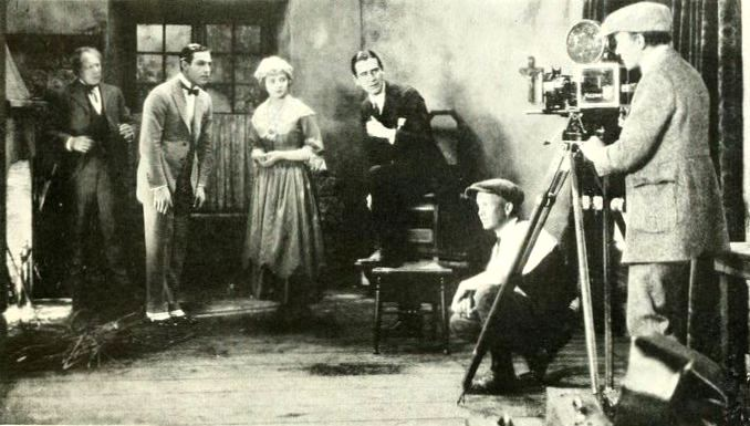 Still from the American film The Conquering Power (1921) with Ralph Lewis, Rudolph Valentino, and Alice Terry listening to director Rex Ingram, on page 207 of Peter Milne, Motion Picture Directing; The Facts and Theories of the Newest Art (1922). The quality of this still does not permit definite identification of the film's cinematographer, John F. Seitz.